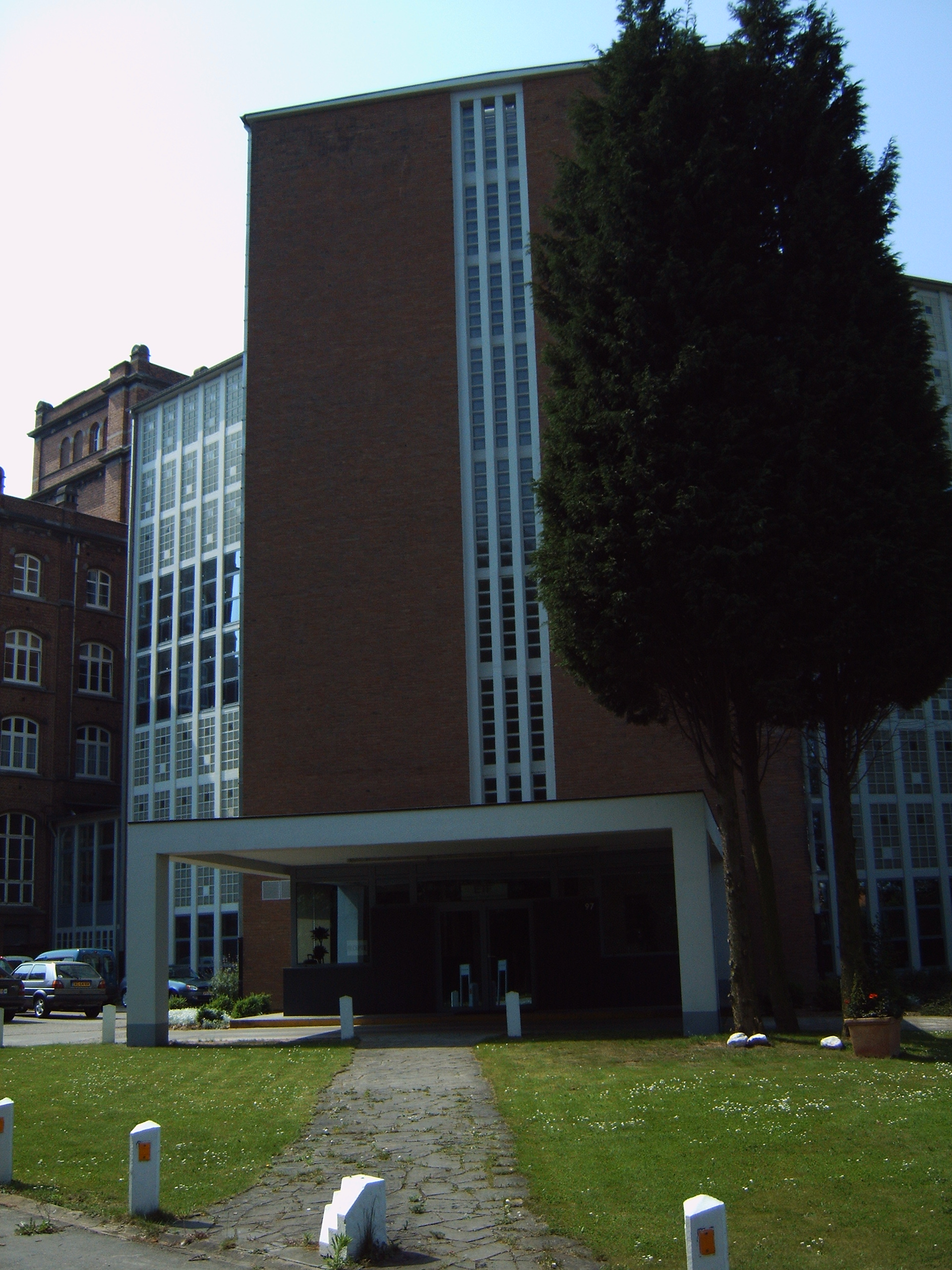 Picture of the building of the Evangelical Theological Faculty in Leuven, Belgium.